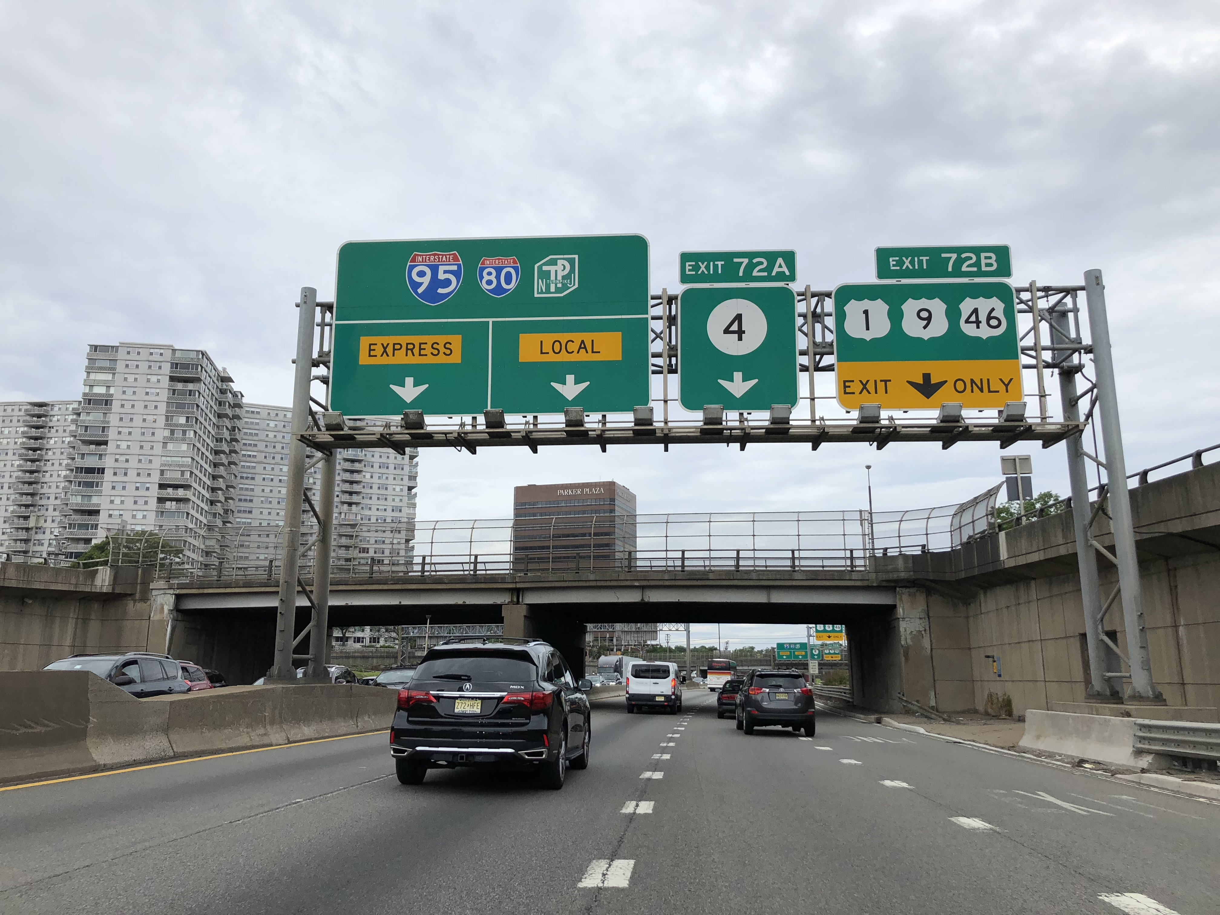 View south along Interstate 95, U.S. Route 1 and U.S. Route 9 and west along U.S. Route 46 (Bergen-Passaic Expressway) at Exit 72 (New Jersey State Route 4, U.S. Route 1, U.S. Route 9, U.S. Route 46) in Fort Lee, Bergen County, New Jersey